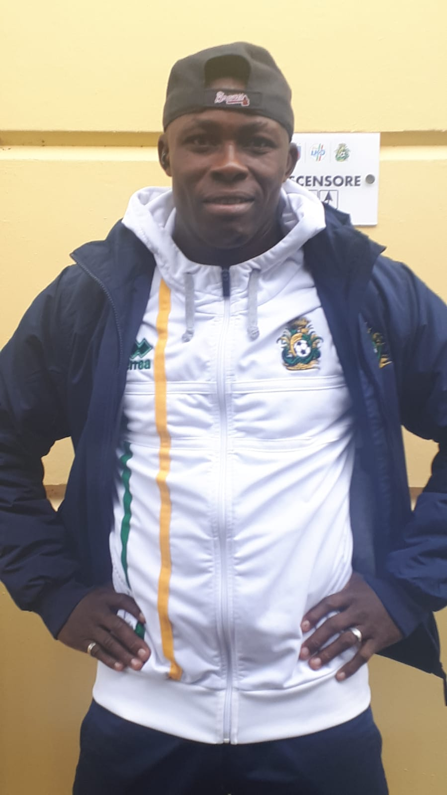 Ahmed Barusso in Colorno before the game with Bagnolese on 17 November 2019